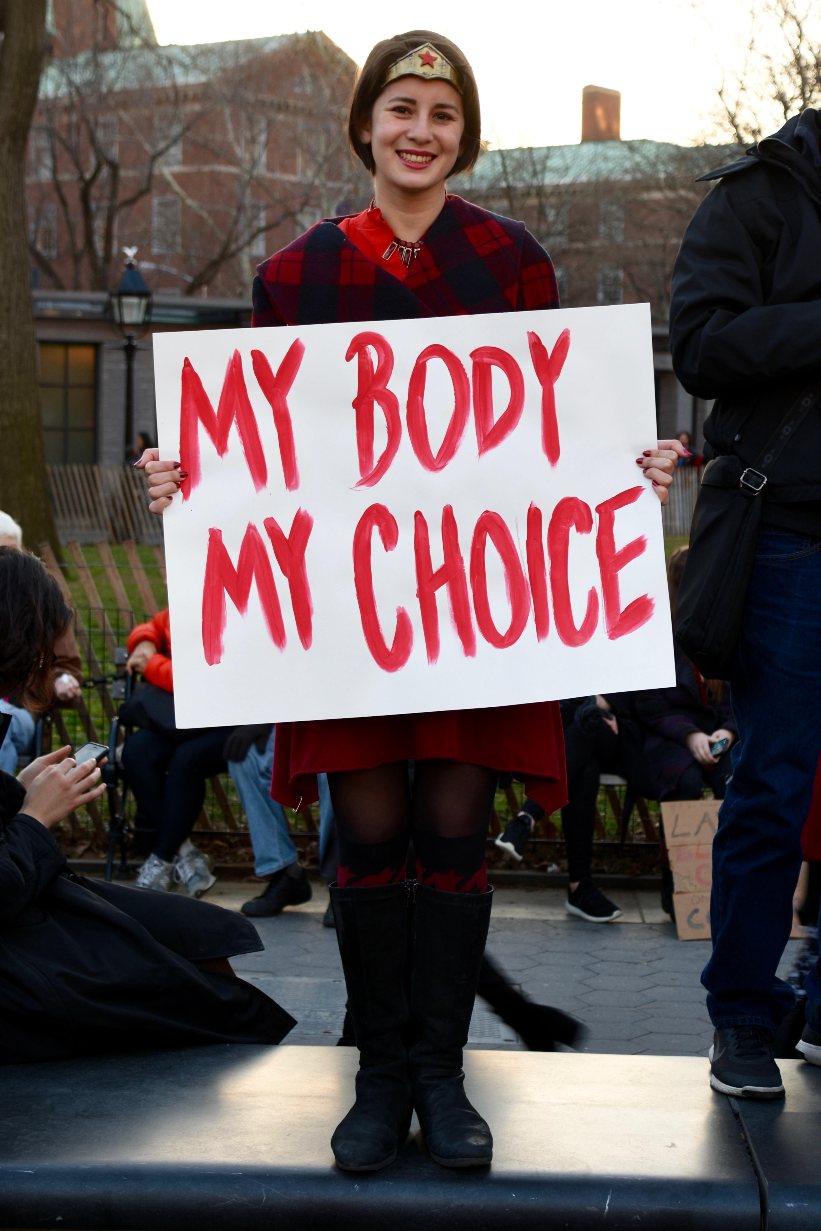 Demonstrator with a placard "My body, my choice", at the Day Without a Woman protests in New York City.